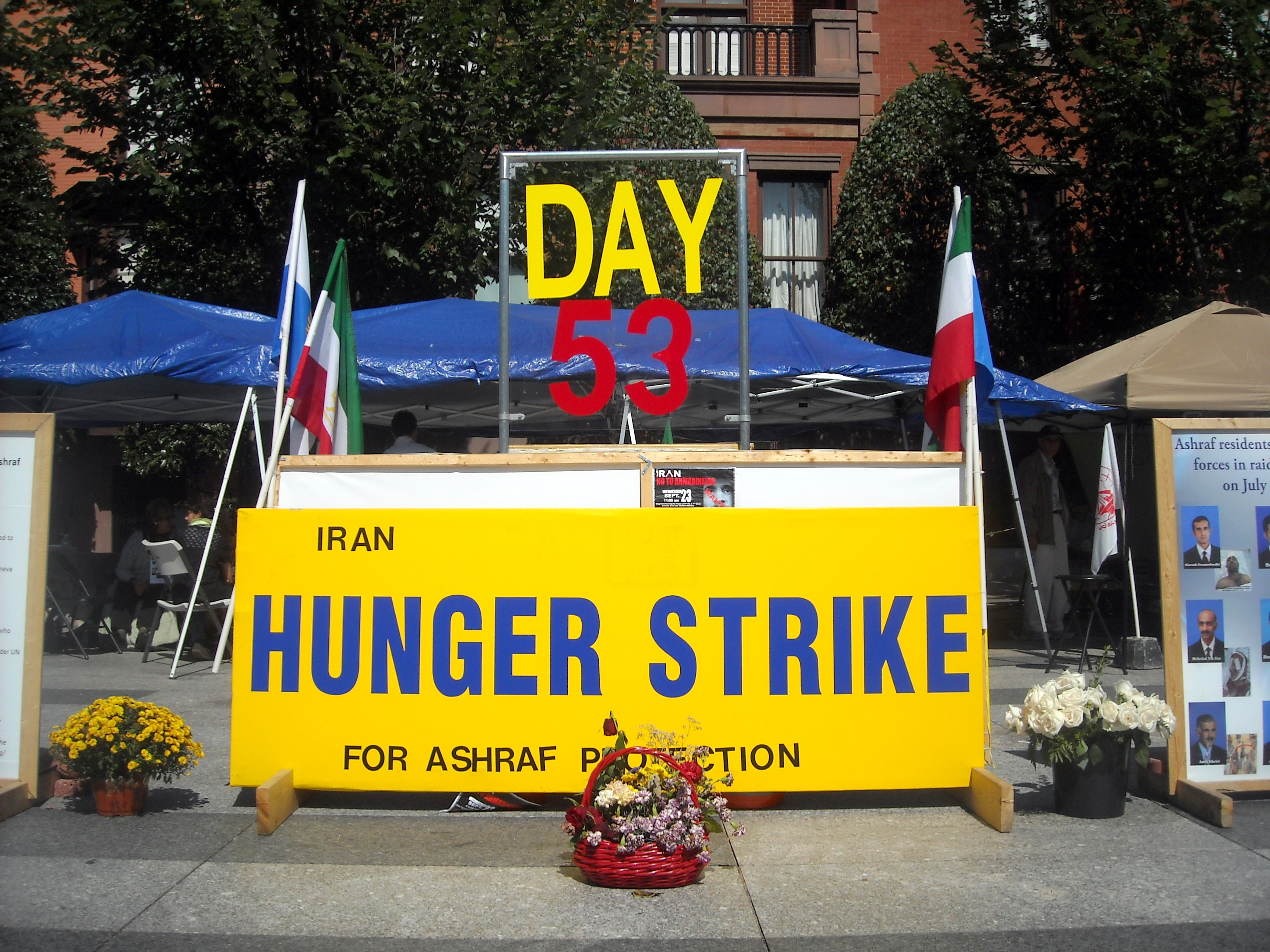 Protesters on "Day 53" of their hunger strike, drawing attention to Iranian refugees living in Camp Ashraf, Iraq. The protesters are camped in front of the Blair House complex, located on the corner of Jackson Place and Pennsylvania Avenue, N.W., in Washington, D.C., one block west from the White House.